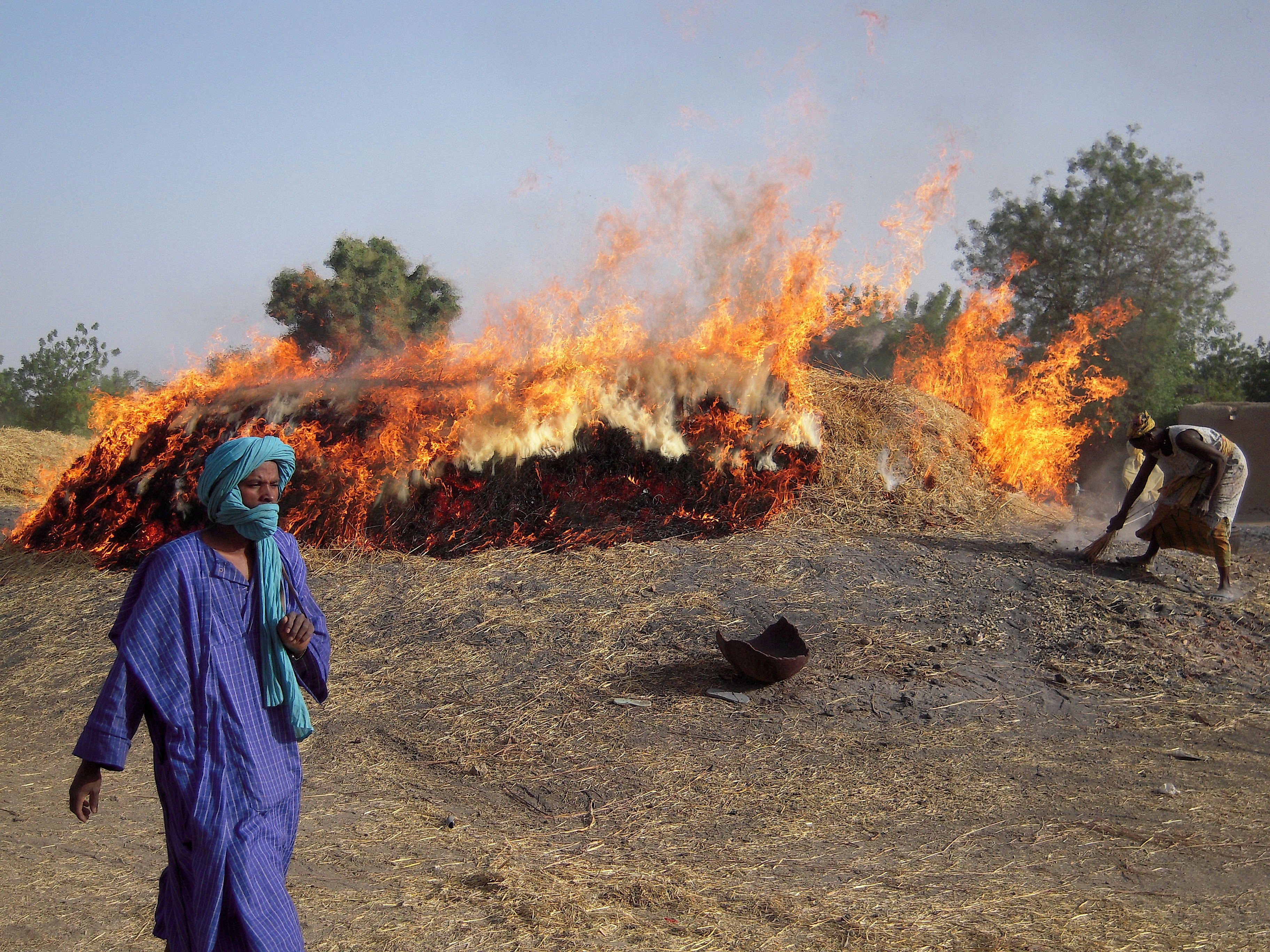 Kalabougou is a village located across the Niger river from Ségou (Mali). The village is known for its craftsmanship, particularly pottery of which the women of the village are traditionally employed in. The potters of Kalabougou are major suppliers of pottery for sale in Bamako, as well as to nearby Segou. “(...) Firings take place in Kalabougou every Saturday and Sunday in the late afternoon. By mid-afternoon, many women and their daughters have brought unfired pots from the compounds where they were made to the firing place, a process that takes many hours. On each trip, a woman carries two pots on her head and one in her hand. Here wavy-lipped flower pots, along with pots for storing water, cooking, and carrying embers, can be seen. (...) When the women and girls have brought all the pots to the firing place, they begin to construct the mound by placing a layer of branches on the ground. The pots are positioned on and amid the branches and then grass is piled high to complete the mound. Although the mound contains the pots of many women, who are related through their husbands' extended families, each women is responsible for her own or her immediate family's pots within the mound. When a mound is completed and the ground around has been swept clean of residual combustible material, a senior potter lights the fire. A handful of grass is lit and the woman runs around the circumference of the mound touching the burning torch to the dried grass. Some mounds are still being constructed as others are already burning. (...)” —“The women of Kalabougou” by Janet Goldner, article published on African Arts, Spring 2007, Vol. 40, No. 1, Pages 74-79.